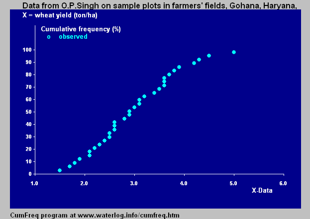 Graph of cumulative frequencies